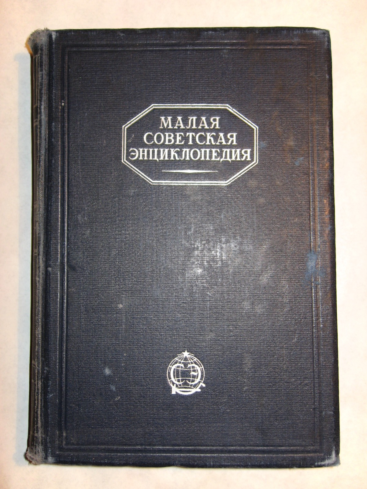 Small Soviet Encyclopedia. Moscow, 1929-1931